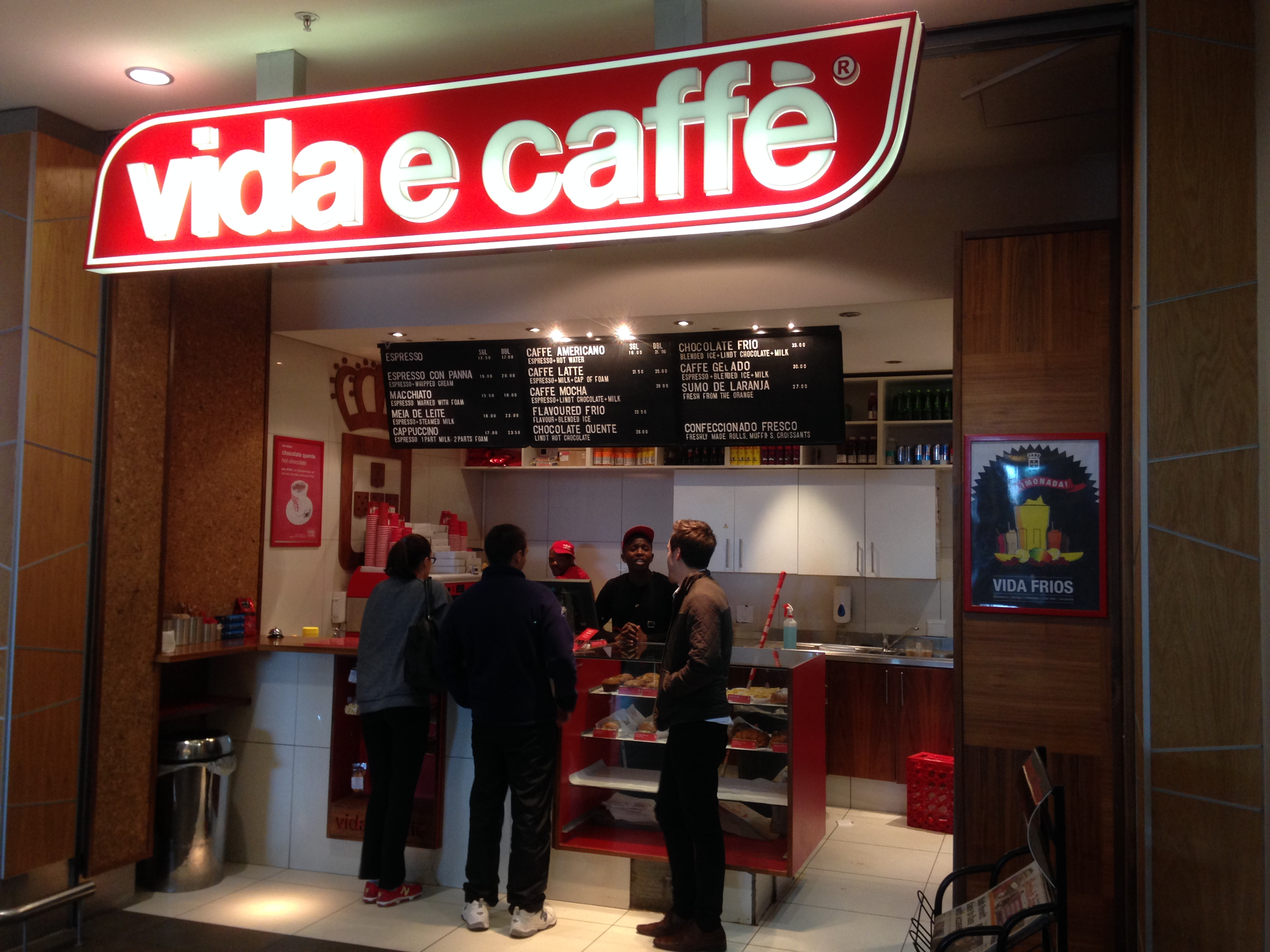 The Vida e Caffe' in Cape Town International airport